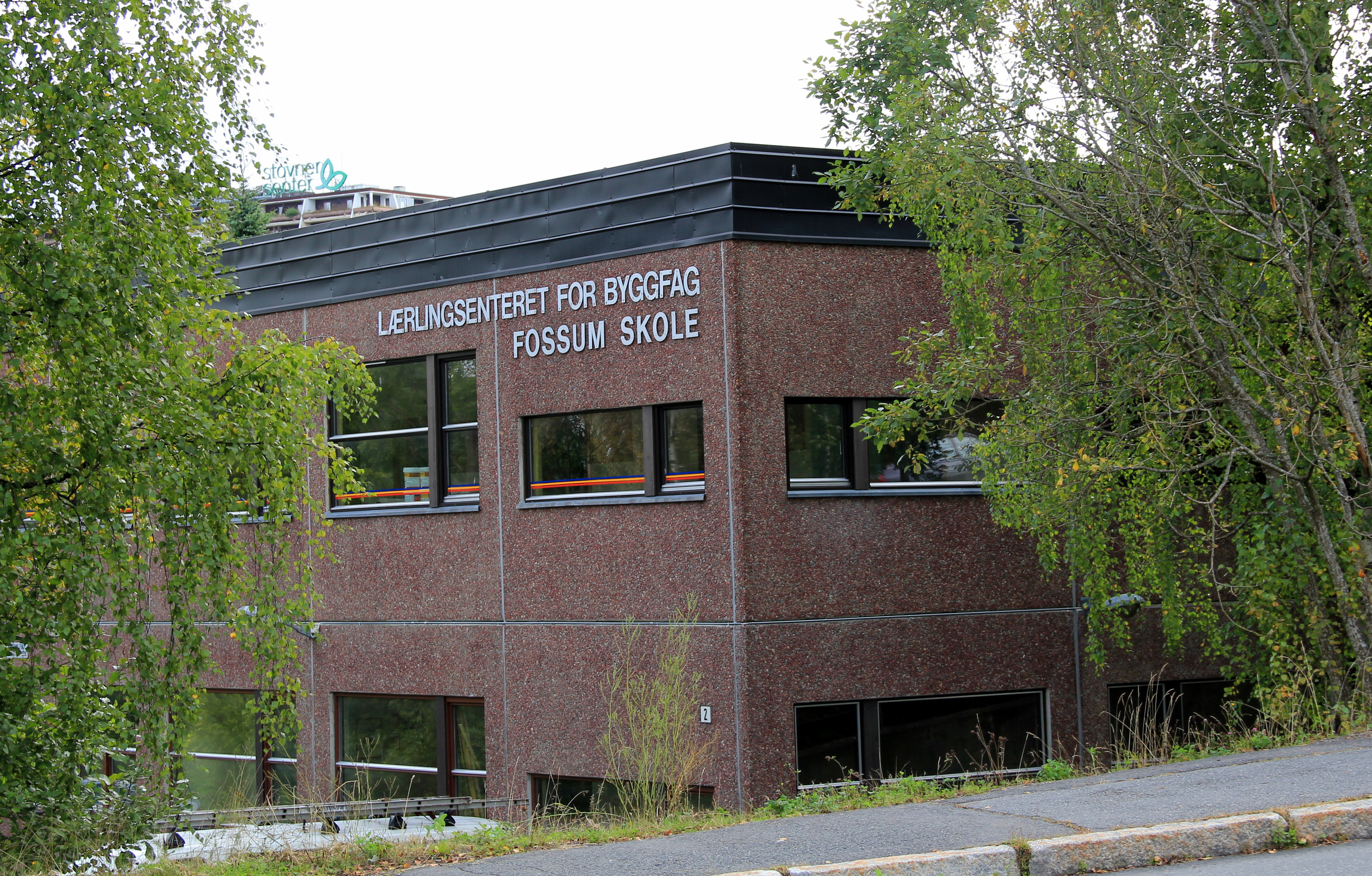 Fossum skole in Stovner, Oslo